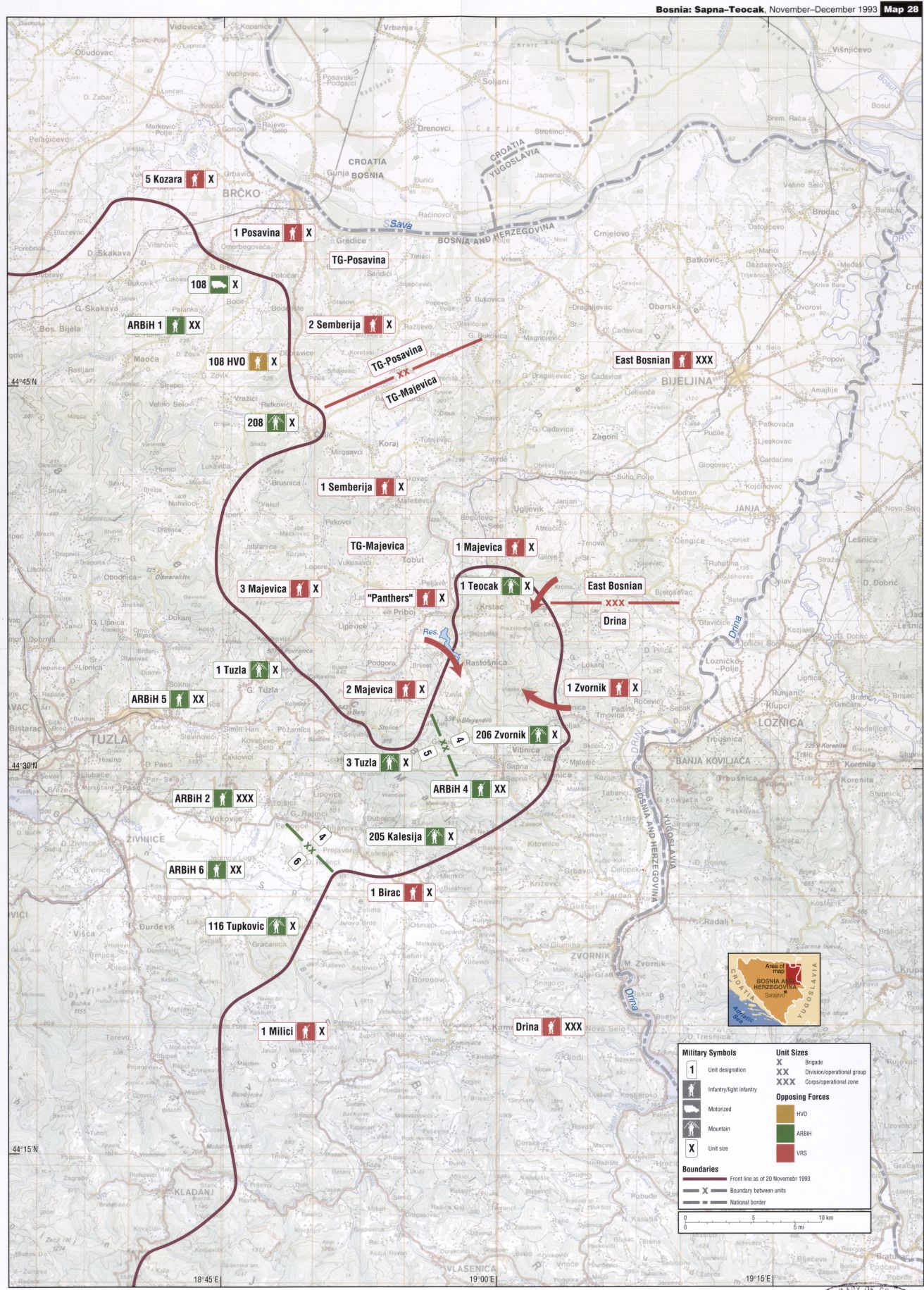 Sapna-Teocak, November-December 1993